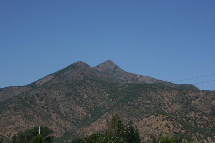 Challay Hill, in Paine, near Santiago de Chile.